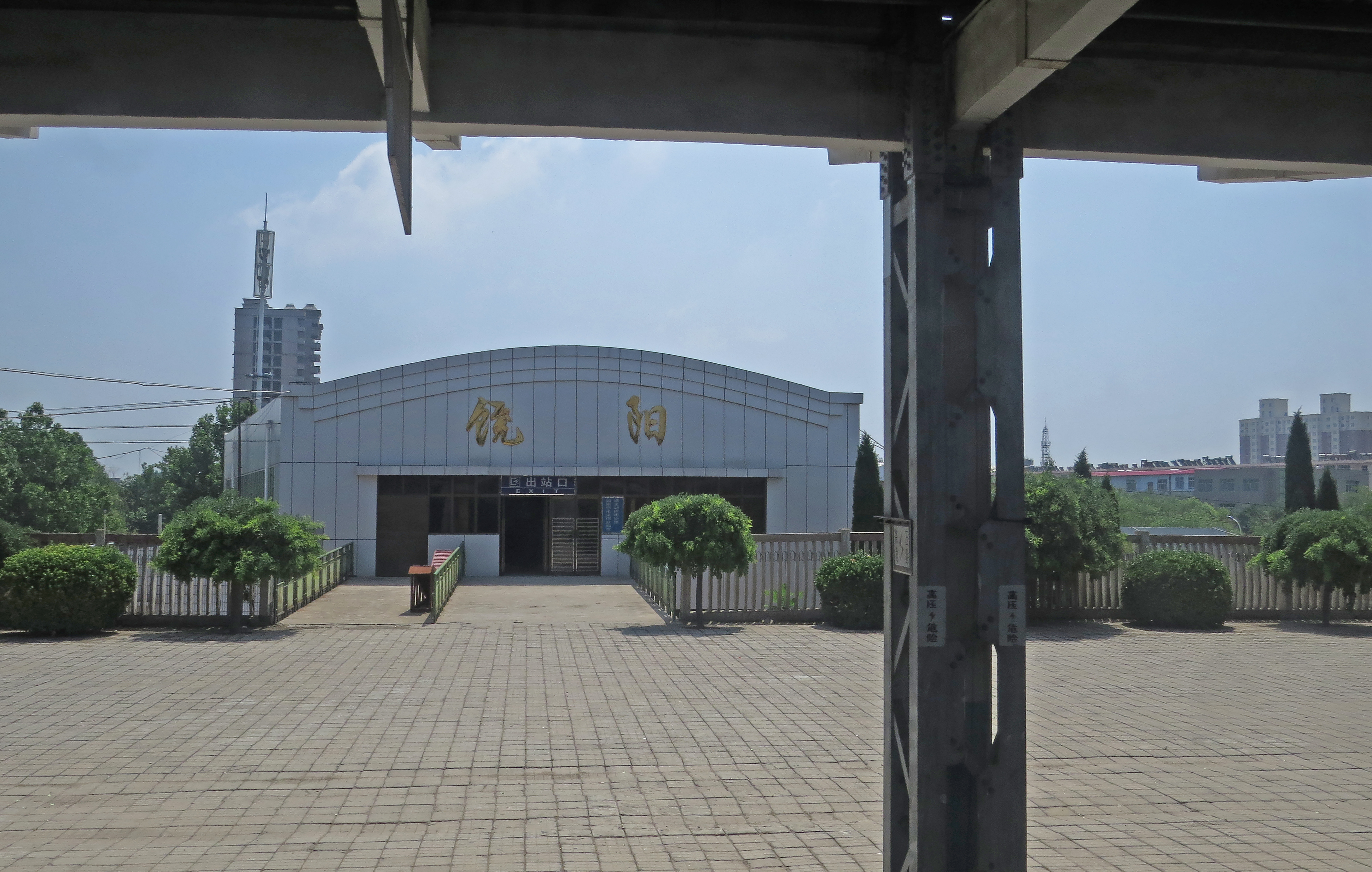 Z601 has a stopover here.